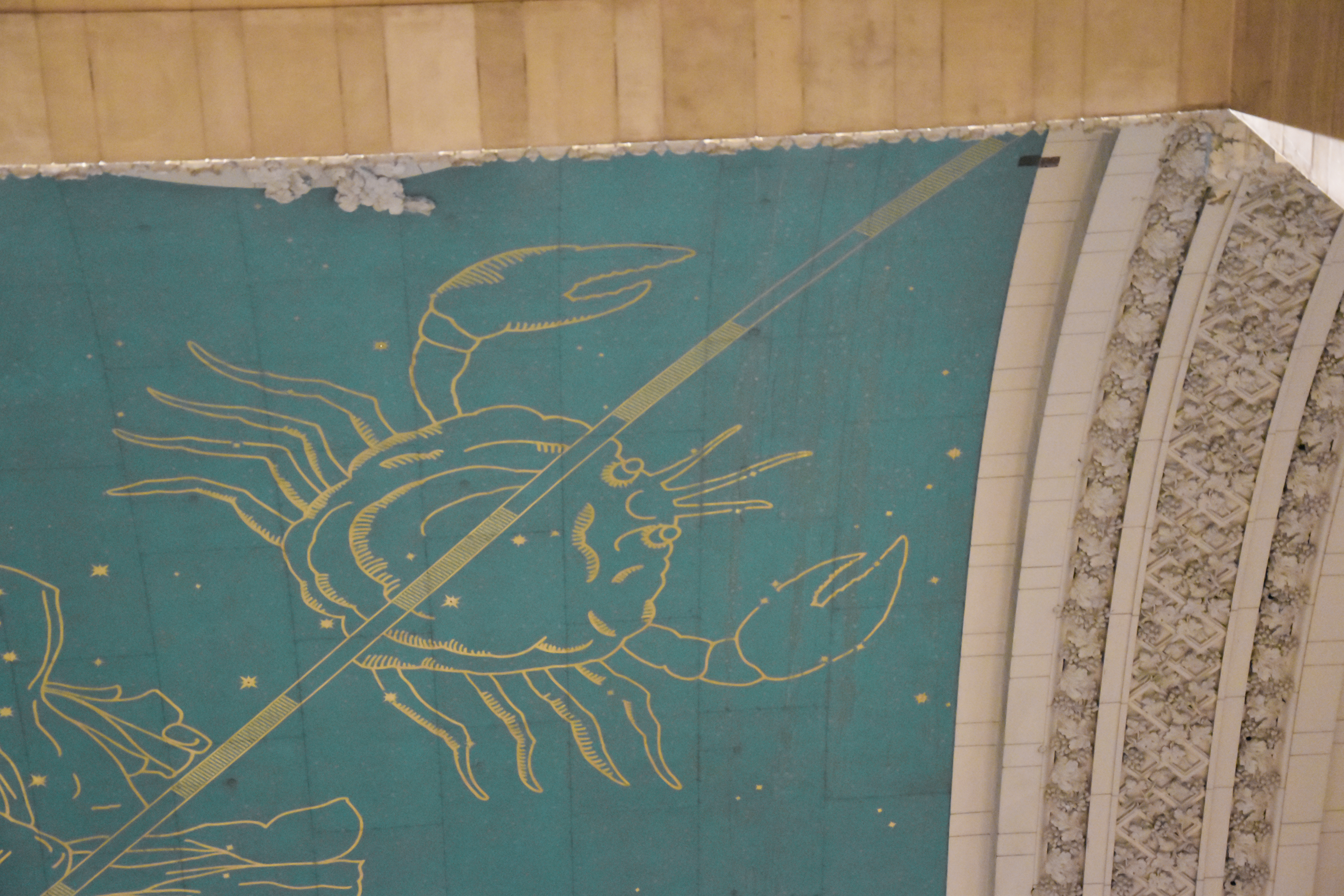 Cancer (crab) constellation pointing to the nicotine -patch- in New York City's Grand Central Terminal in 2019. Taken as part of a scheduled photoshoot with three other Wikipedians on January 7, 2019.